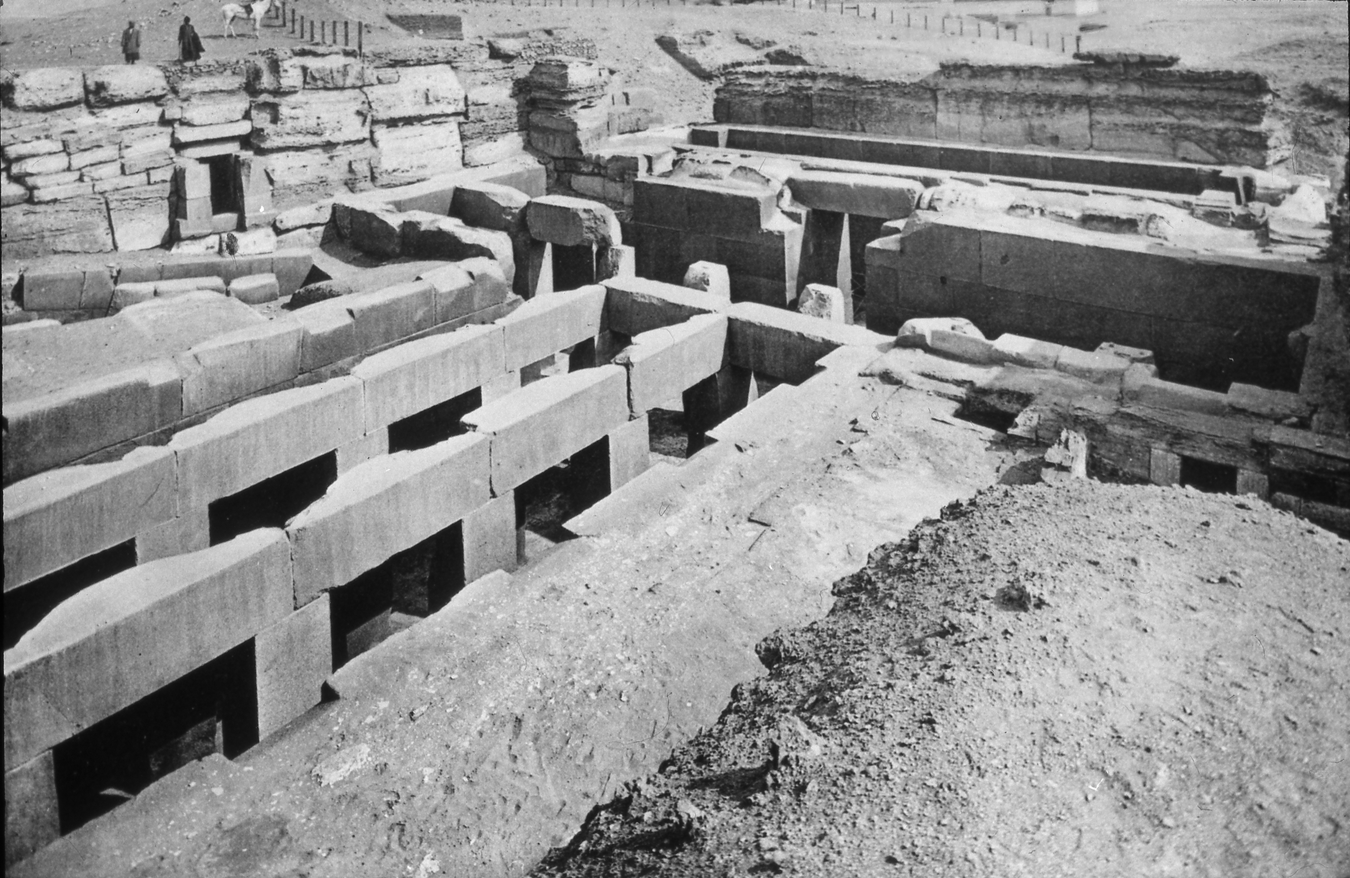 Lantern Slide Collection: Views, Objects: Egypt. Gizeh [selected images]. View 09: Egyptian - Old Kingdom. Temple of Khephren. Gizeh, 4th Dyn., n.d. Brooklyn Museum Archives (S10.08 Gizeh, image 9617).